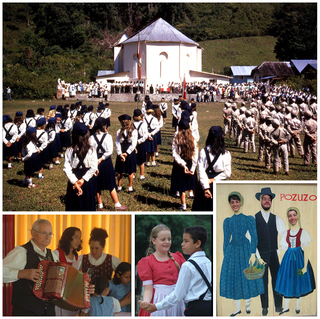 Pozuzo is the unique austro-german colony in the world and it is in the heart of the Central Forest of Peru